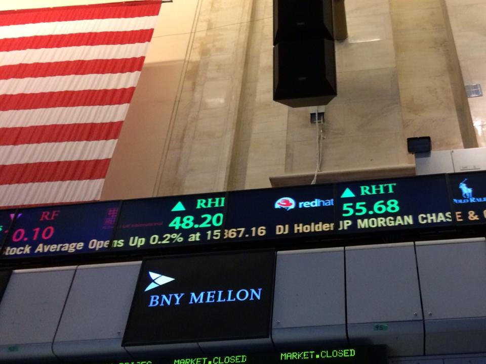 NYSE event and news ticker with RHT ticker symbol for Red Hat Inc.